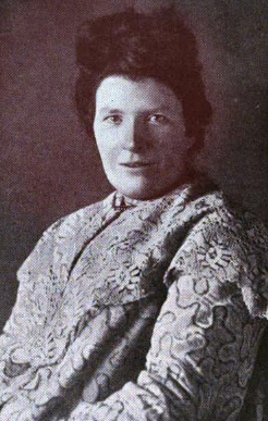 Nora Hopper Chesson, from a 1906 publication. A white woman, seated, in a printed garment; her hair is dark and arranged in an updo.